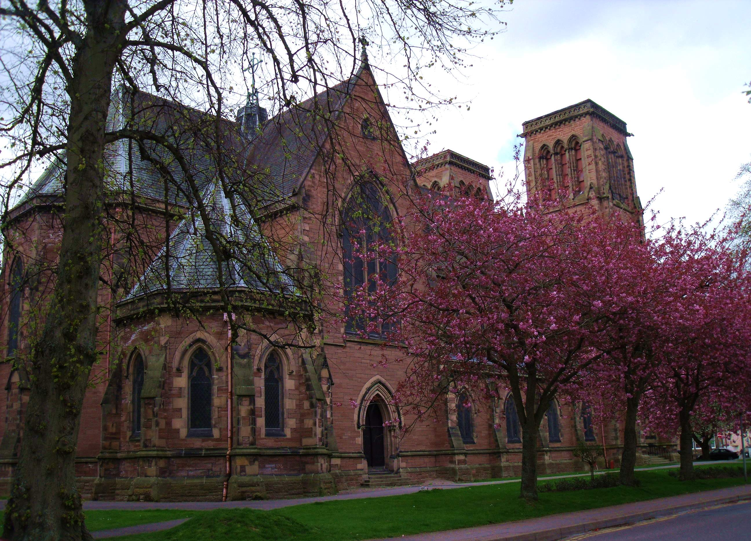 View of side of building with its guard of honour of cherry trees Best viewed Original size